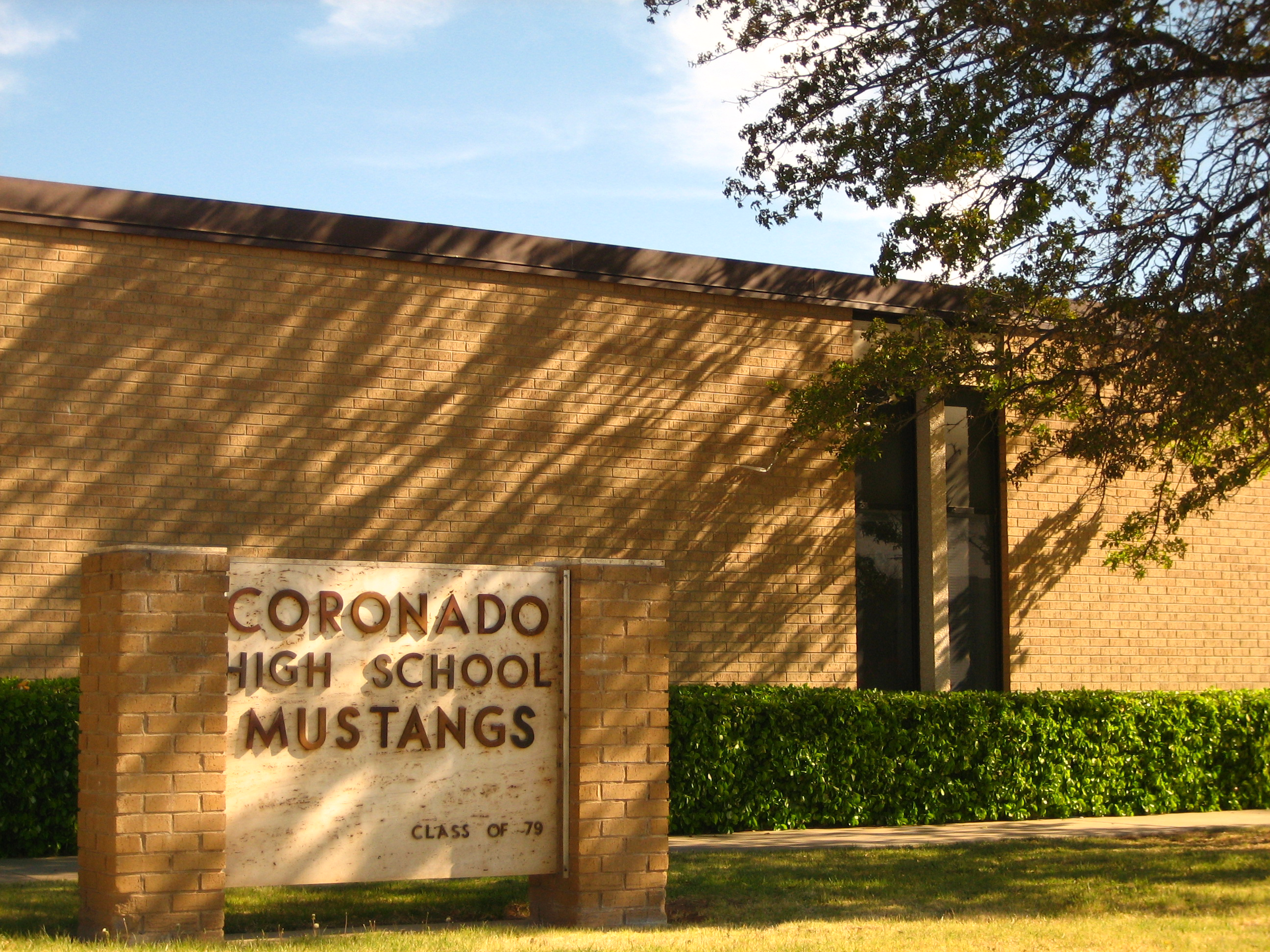 I took photo on April 5, 2009.Billy Hathorn (talk) 14:24, 7 April 2009 (UTC)